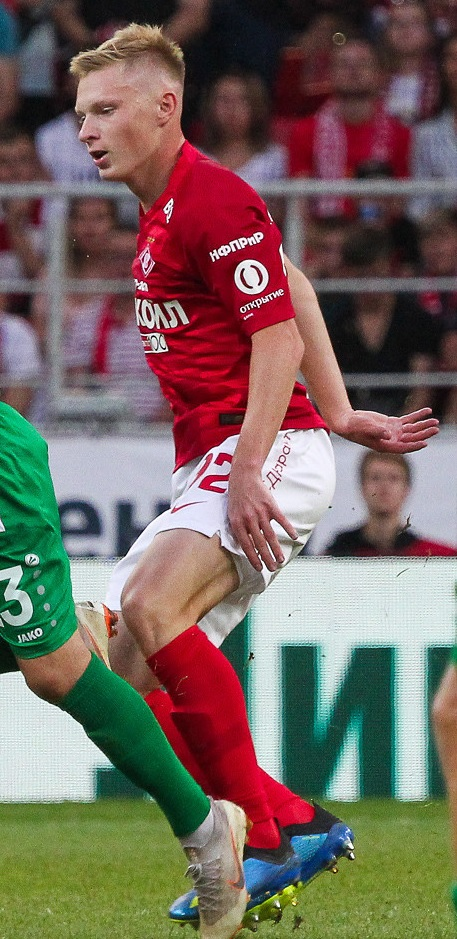 Nikolai Rasskazov with FC Spartak Moscow in a game against FC Anzhi Makhachkala.